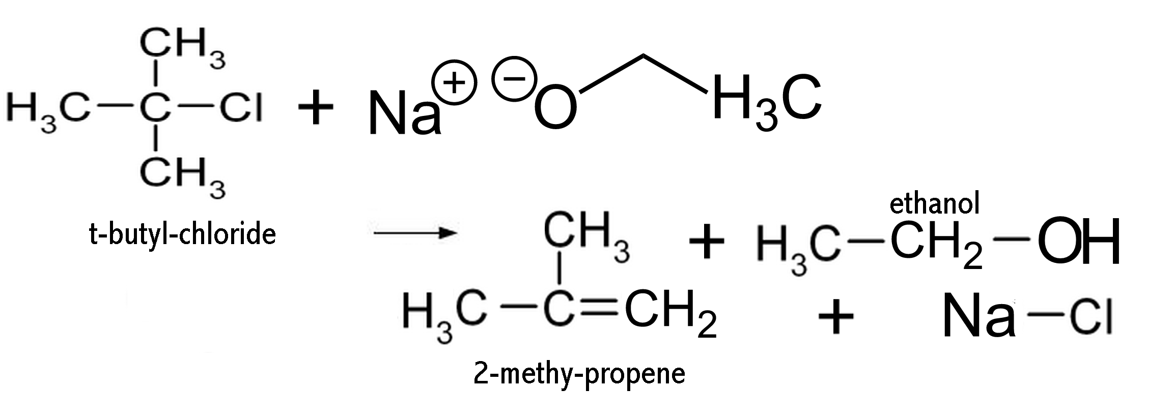 Reaction between sodium ethoxide and t-butyl chloride